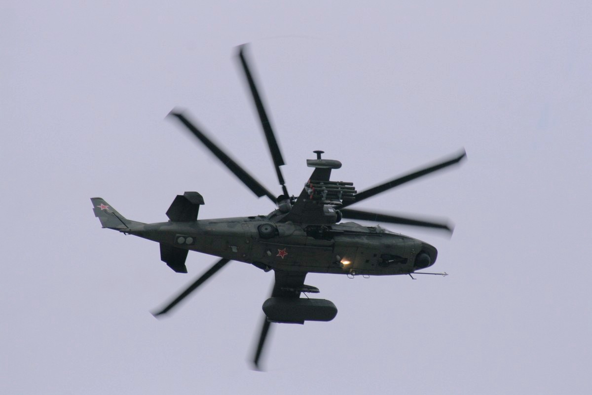 Ka-52 Alligator at the MAKS Airshow 2009.